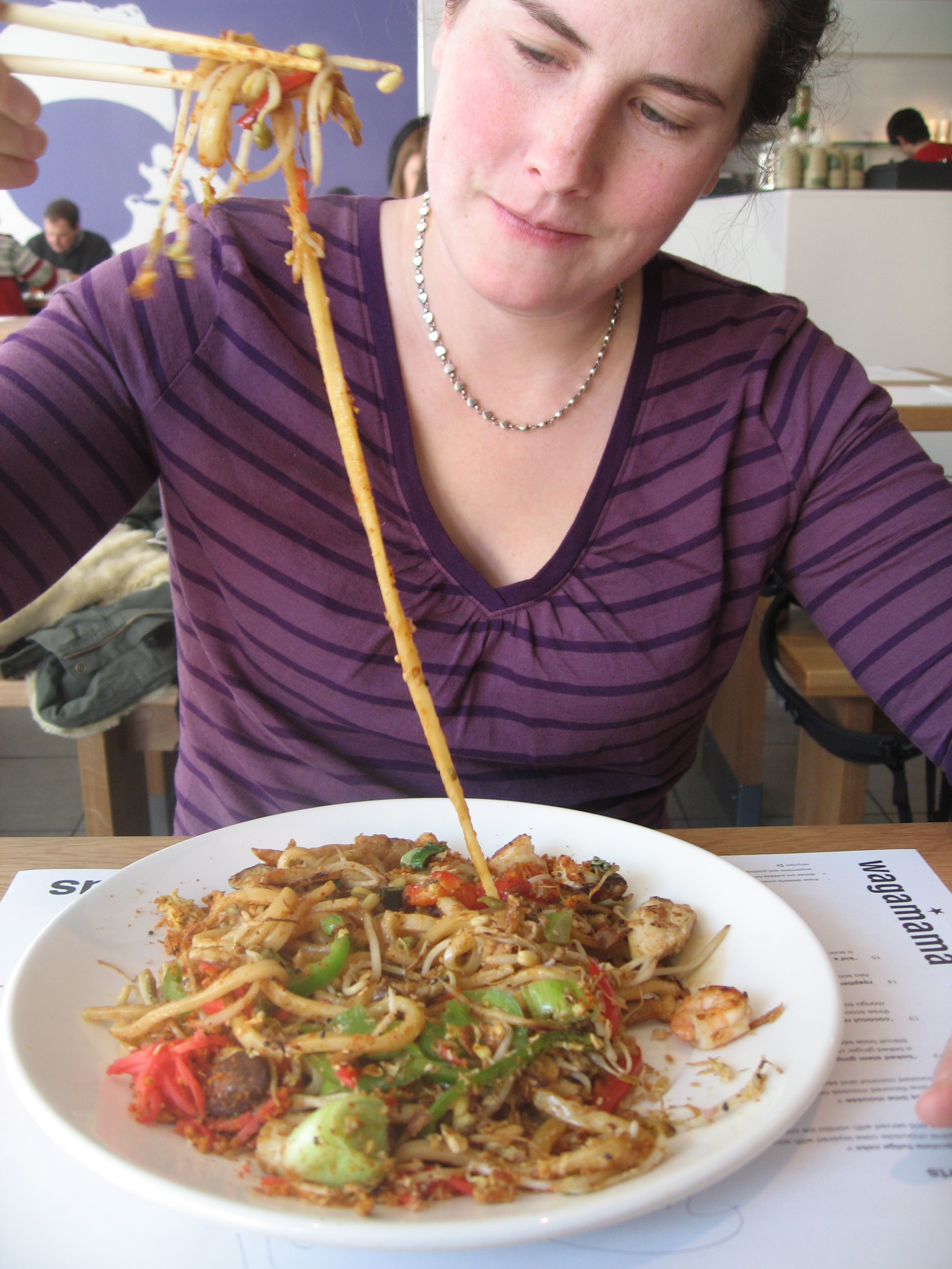 Yaki udon at the Japanese restaurant Wagamama Boston One LLC [2], on John F. Kennedy Street (the Galeria) in Harvard Square, Cambridge, Massachusettsmmmm... udon noodles at Wagamama